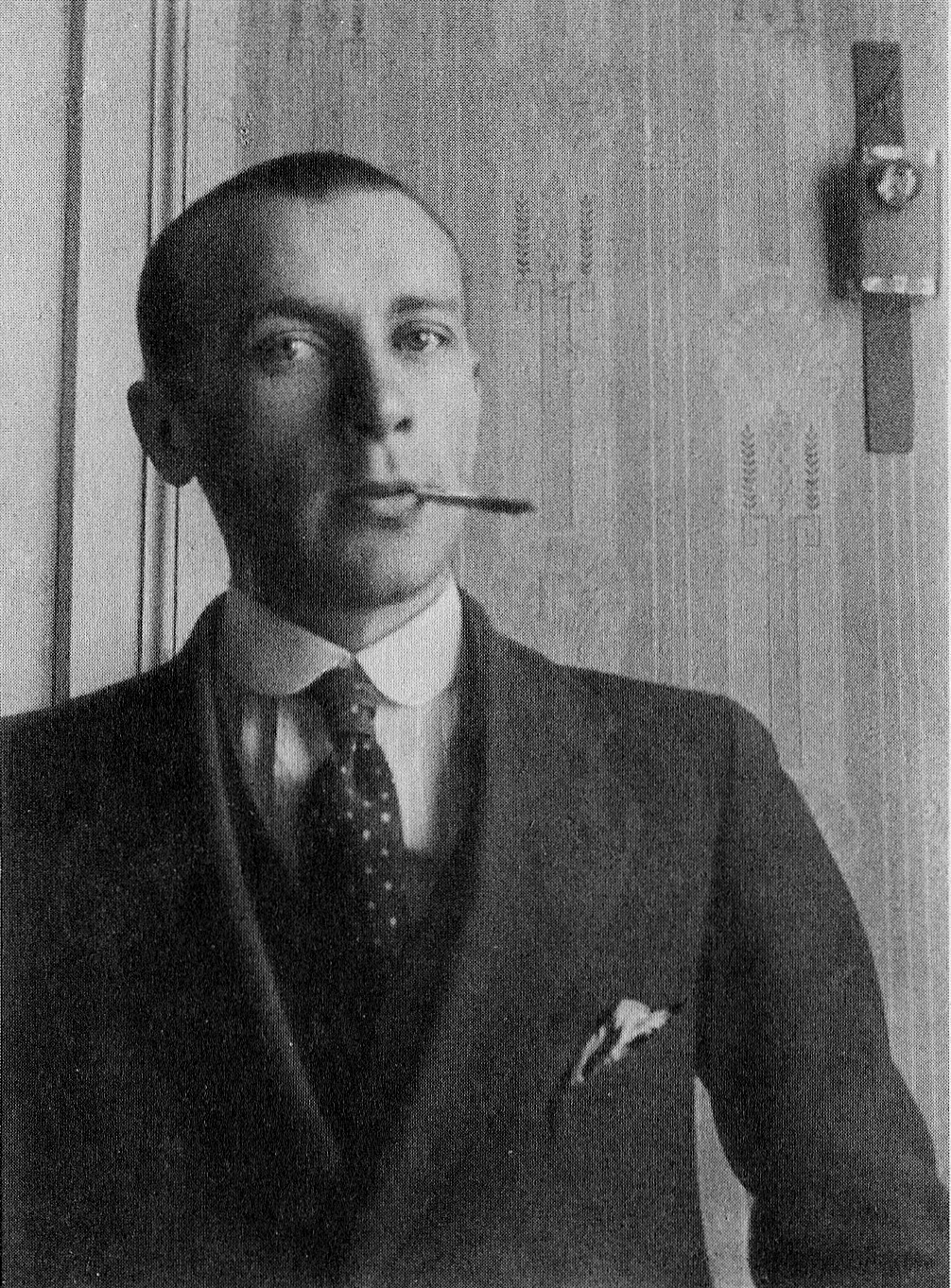 Mikhail Bulgakov in the 1910s, during his university years.